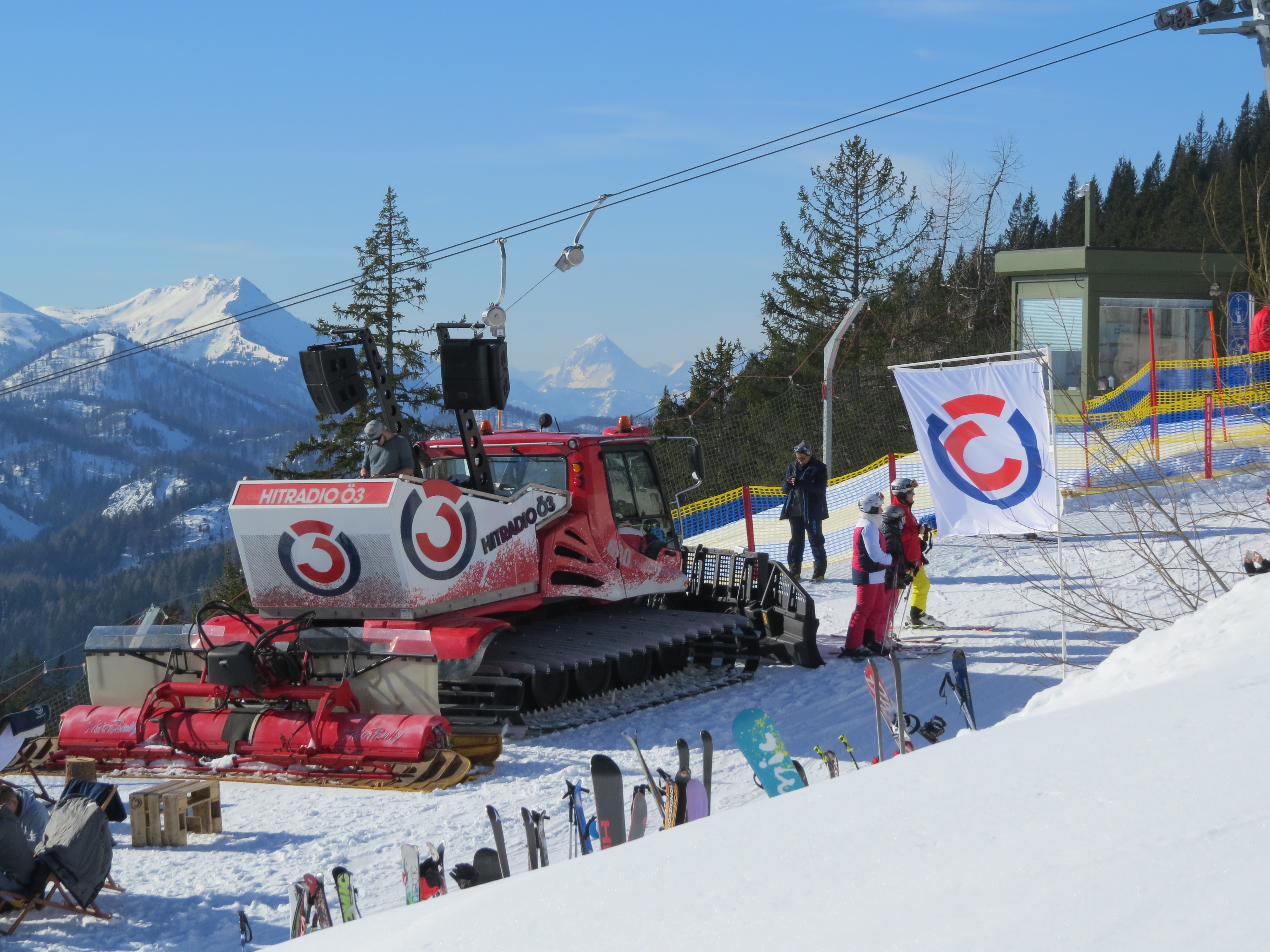 Ö3-PistenBully at Gemeindealpe, Mitterbach am Erlaufsee, Austria